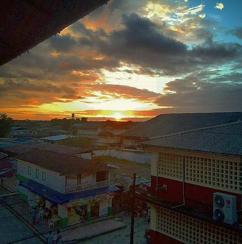 Urbanismo Guapi